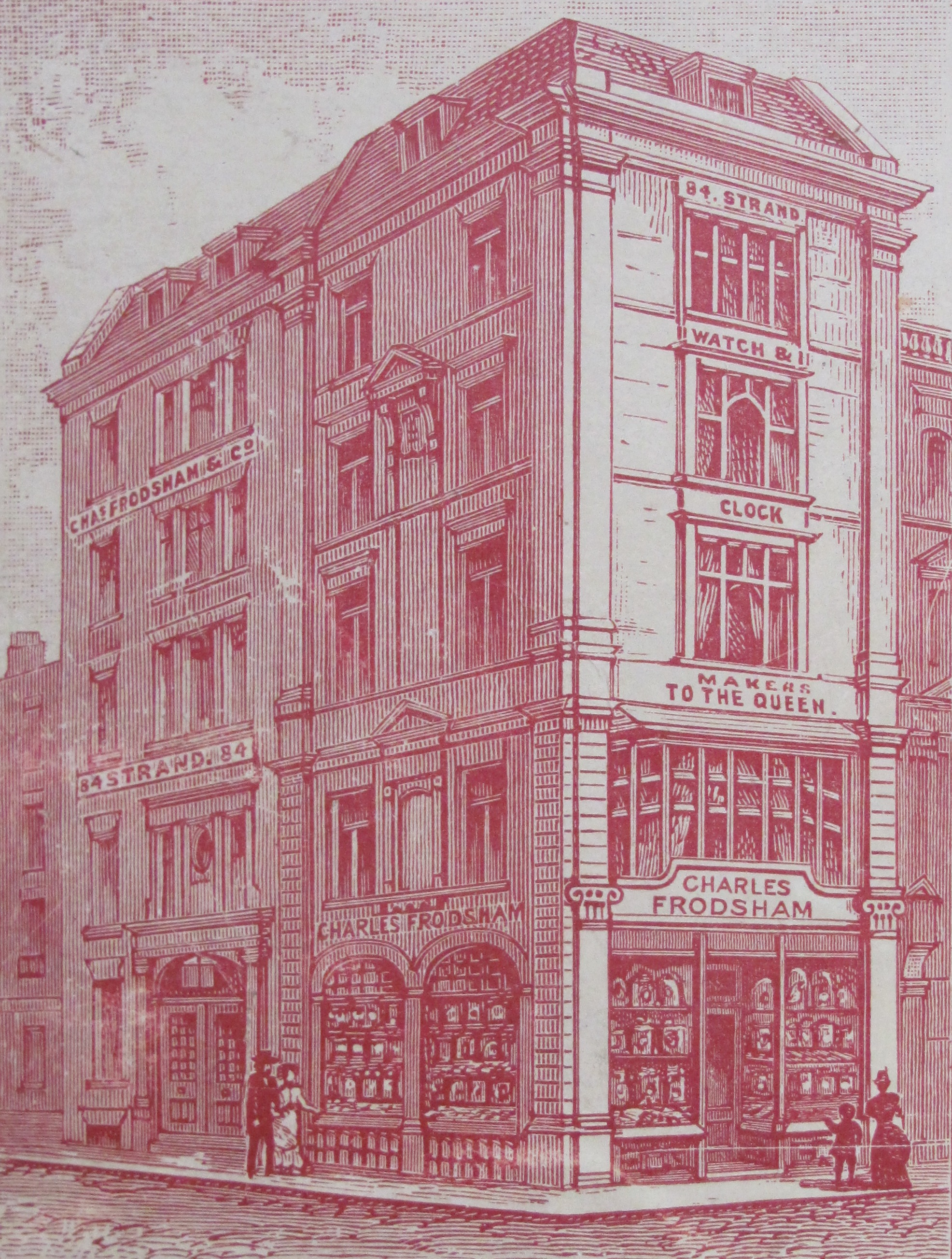 engraving showing the Frodsham shop at 84 Strand